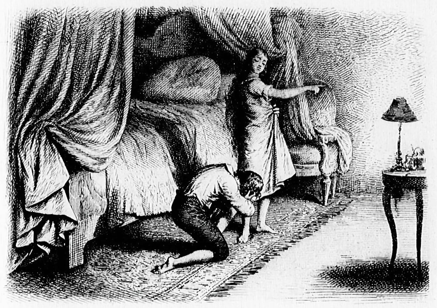 Illustration of The Red and the Black (1830) by Stendhal (1783-1842)